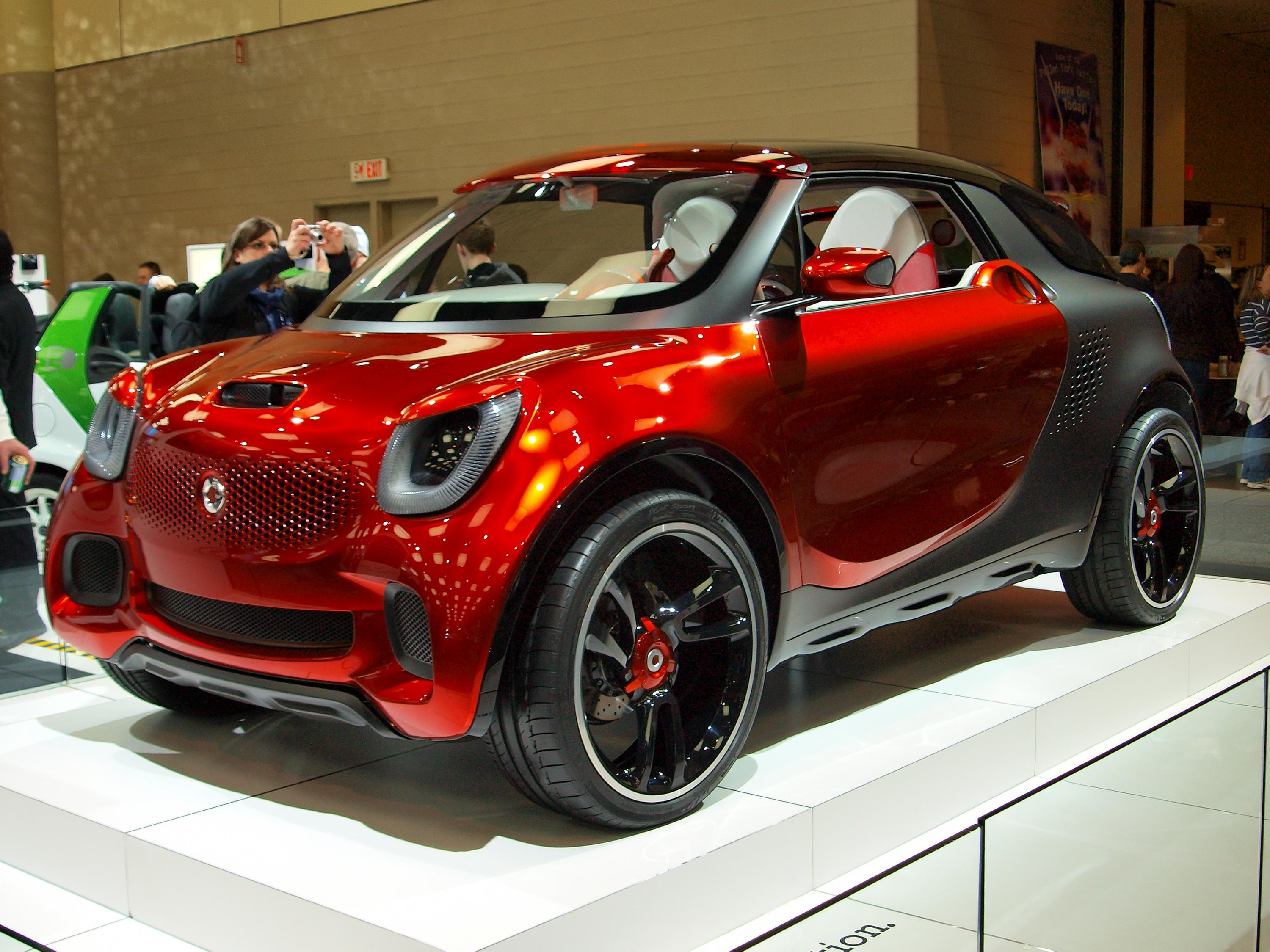 This was an awesome concept! There is a projector in the front that projects a movie into a wall. All you have to do is find a place to park!